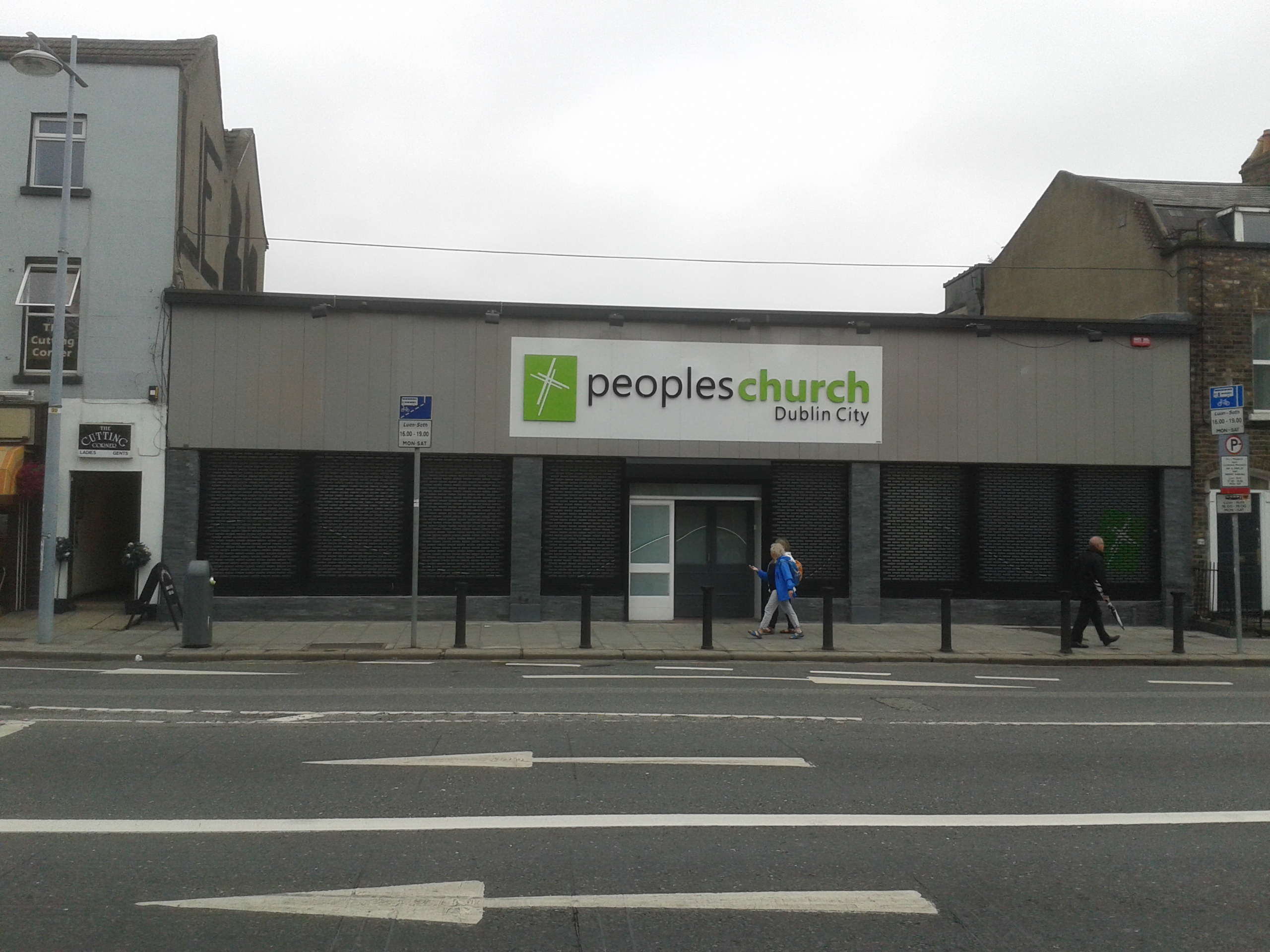 Peoples Church Dublin City, Pentecostalist centre of worship, Pearse Street